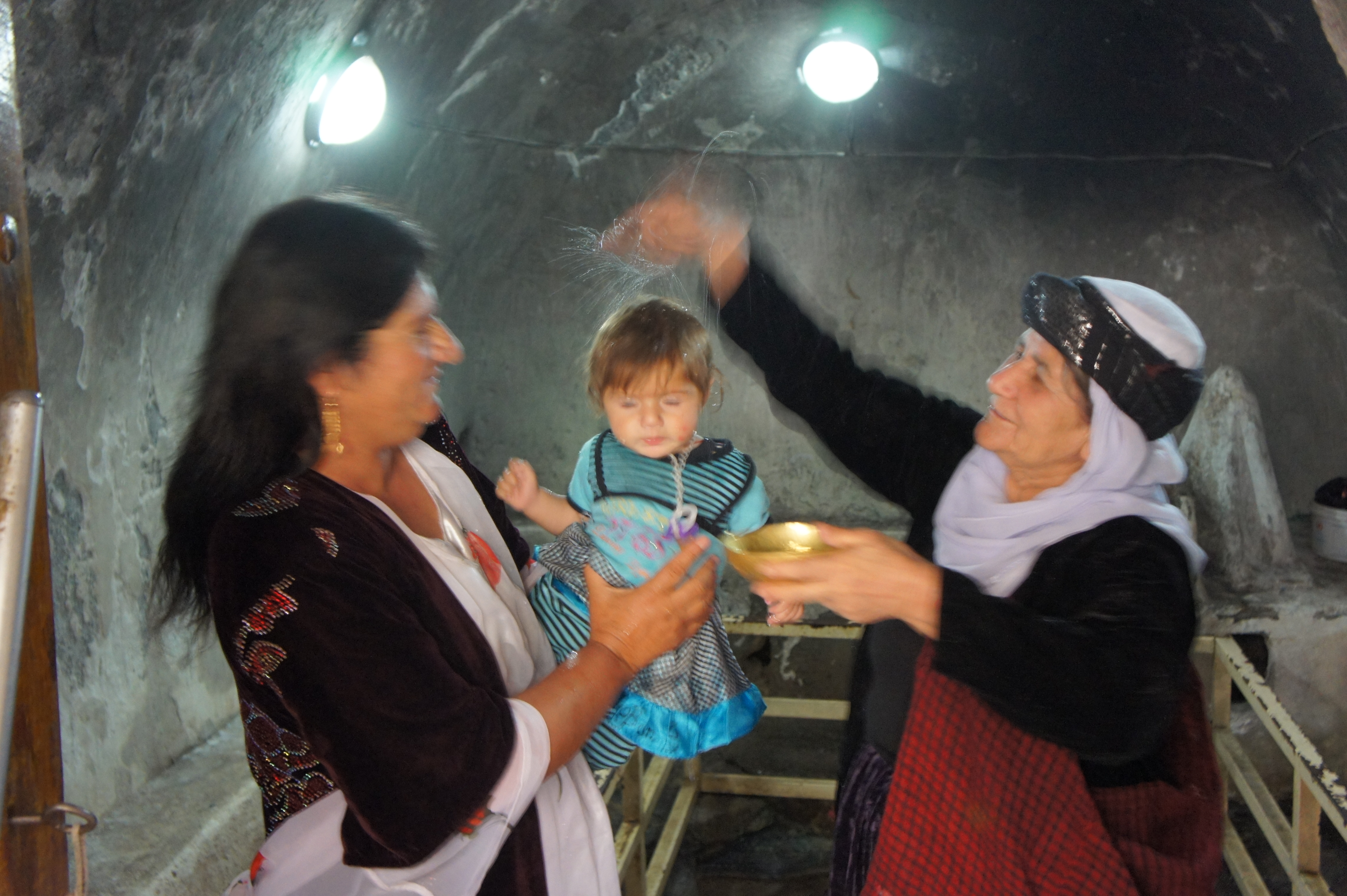 Baptism